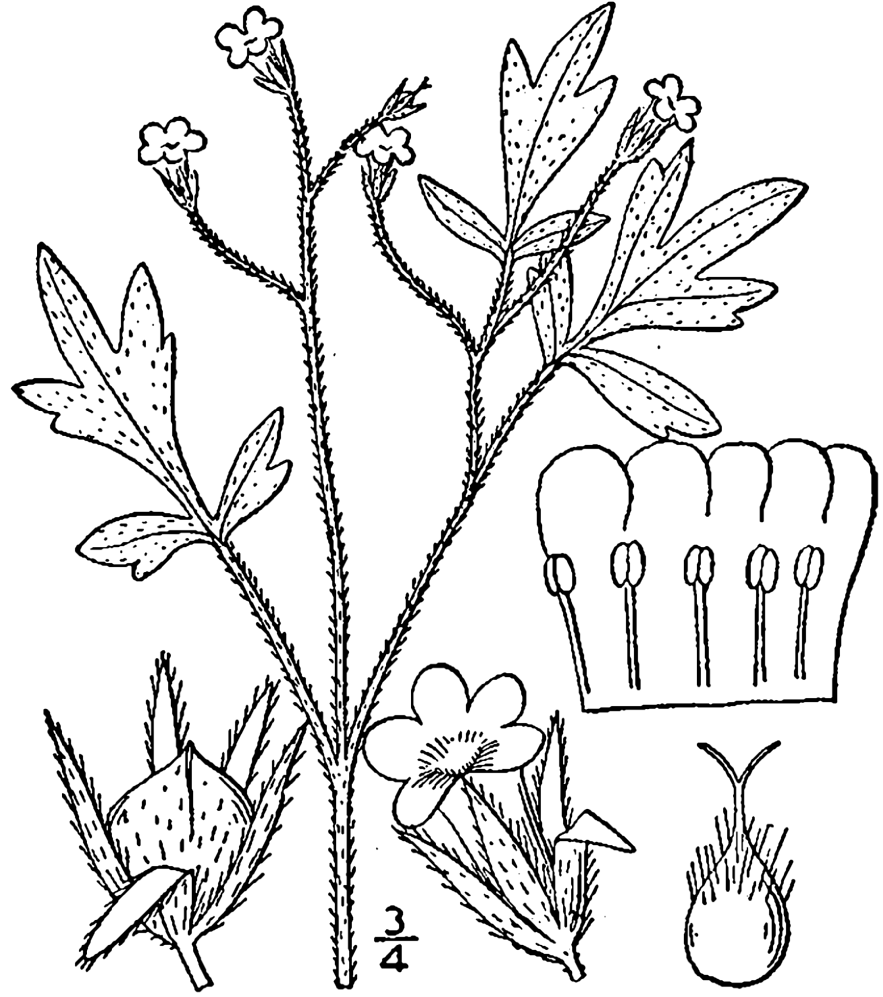 Illustration from An Illustrated Flora of the Northern United States, Canada and the British Possessions: From Newfoundland to the Parallel of the Southern Boundary of Virginia, and from the Atlantic Ocean Westward to the 102d Meridian, Volume 3.